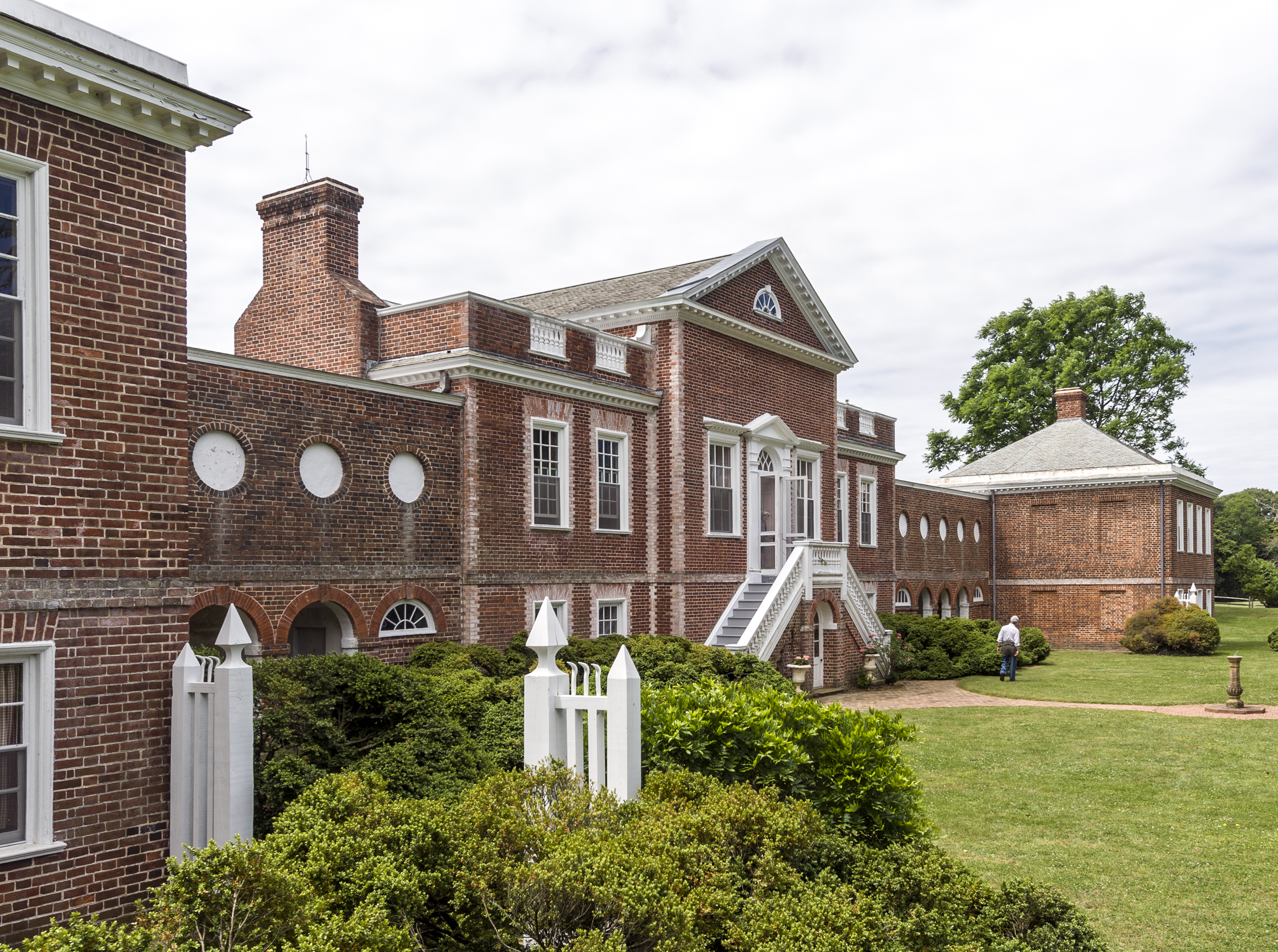 Whitehall, Annapolis, Maryland, USA. North side of the house looking southeast.